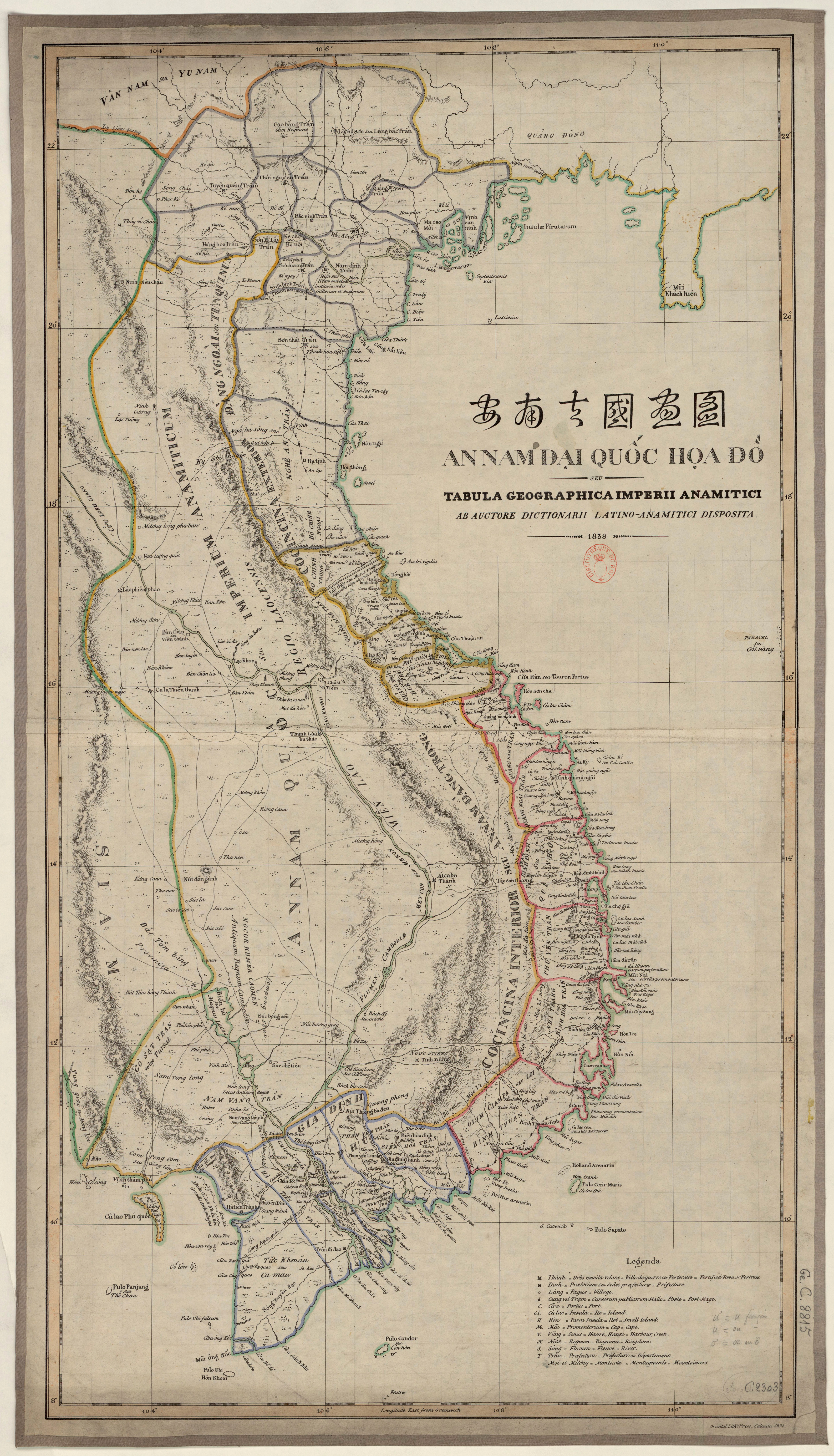 An Nam Dai Quoc Hoa Do or map of Viet Nam during Nguyen dynasty - by Jean-Louis Taberd published in 1838 Titre :Annam Dai Quôc'Hoa Dô'seu tabula geographica imperii anamitici ab auctore dictionarii latino-anamitici disposita Auteur :Taberd, Jean-Louis (1794-1840). Cartographe Éditeur :Oriental Lith. Press (Calcutta) Date d'édition :1838 Sujet :Divisions politiques et administratives Sujet :Annam, Empire d' -- Divisions politiques et administratives Type :carte Type :image fixe Langue :Multilingue Format :1 flle avec limites en coul. ; 44 x 83 cm Format :image/jpeg Description :Échelle(s) : [A la latitude de 16° N. 1° =4 mm. ; 1:2 100 000 ca] Droits :domaine publicIdentifiant : Source :Bibliothèque nationale de France, département Cartes et plans, GE C-8815 Couverture :Monde Relation : Provenance :Bibliothèque nationale de France Date de mise en ligne :30/03/2015